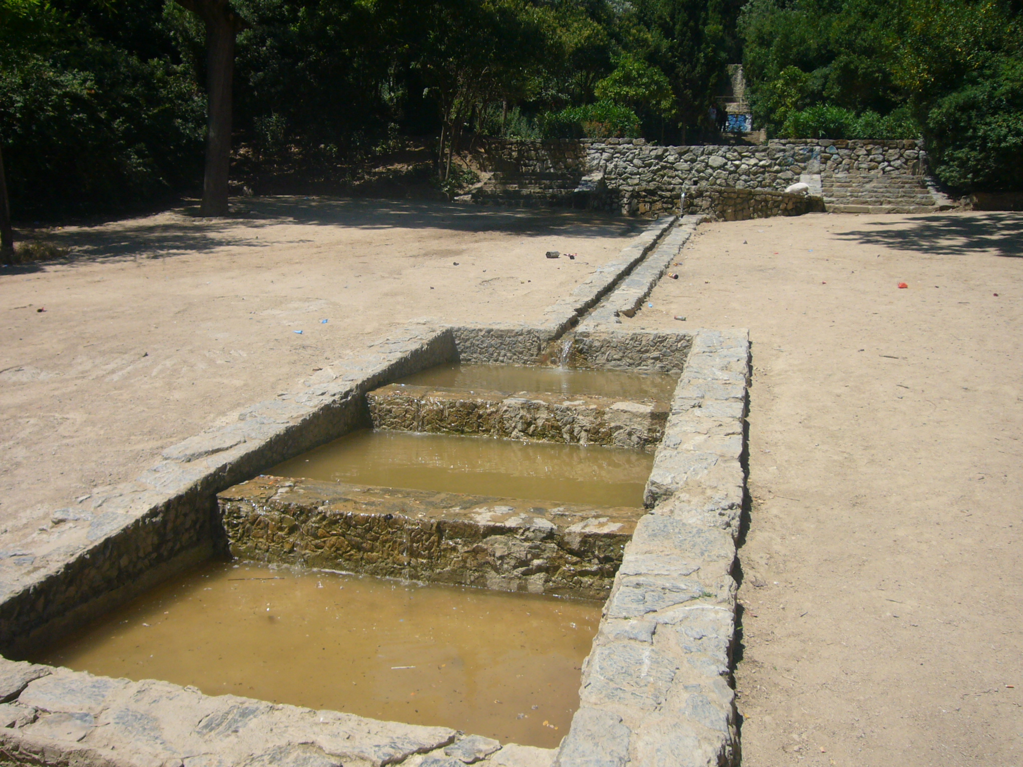 Parc del Guinardó